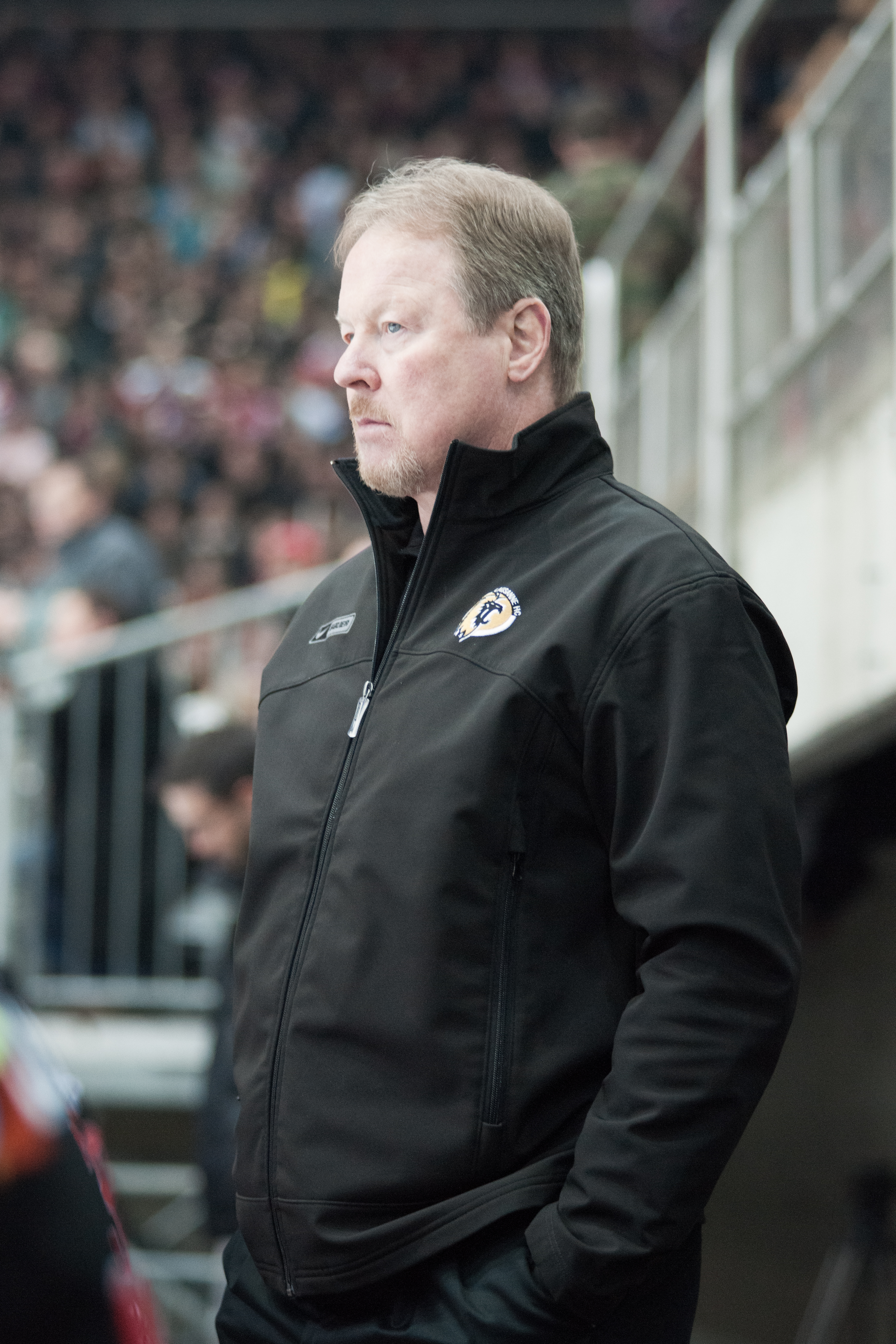 The making of this document was supported by Wikimedia CH. (Submit your project!) For all the files concerned, please see the category Supported by Wikimedia CH.